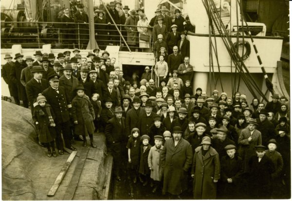 Caption: Transport von 61 deutsch-russischen (Mennoniten-)Familien nach Paraguay. Die Flüchtlinge nach ihrer Einschiffung an Bord des Hapagdampfers 'Bayern', wo sie vom Vorstandsmitglied der Hamburg-Amerika-Linie Dr. Kiep begrüßt wurden. Translation: Transport of 61 German-Russian (Mennonite) families to Paraguay. Following boarding the ocean liner 'Bayern' they are greeted by the director of the Hamburg-America line Dr. Kiep. Citation: H.S. Bender Photographs. HM4-083 Box 1 Folder 3 Photo 2. Mennonite Church USA Archives - Goshen. Goshen, Indiana.